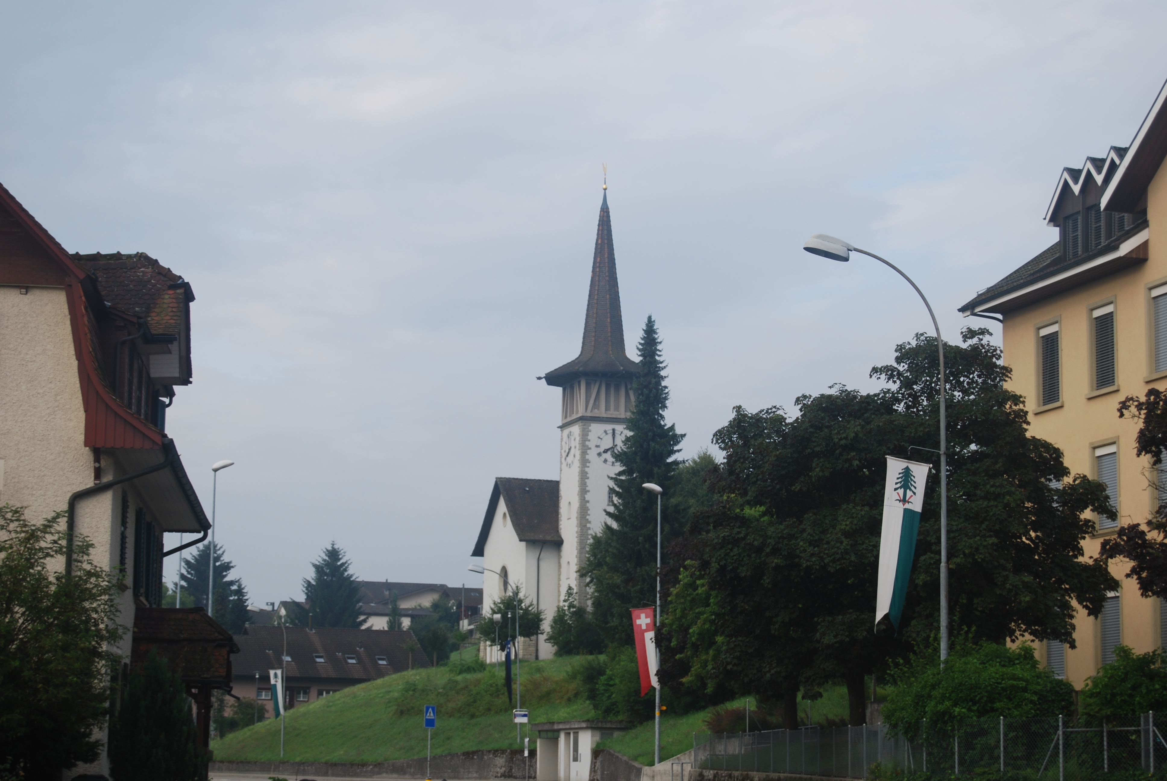 Church of Vordemwald, canton of Aargau, SwitzerlandEsperanto: Preĝejo de Vordemwald, Kantono Argovio, Svislando